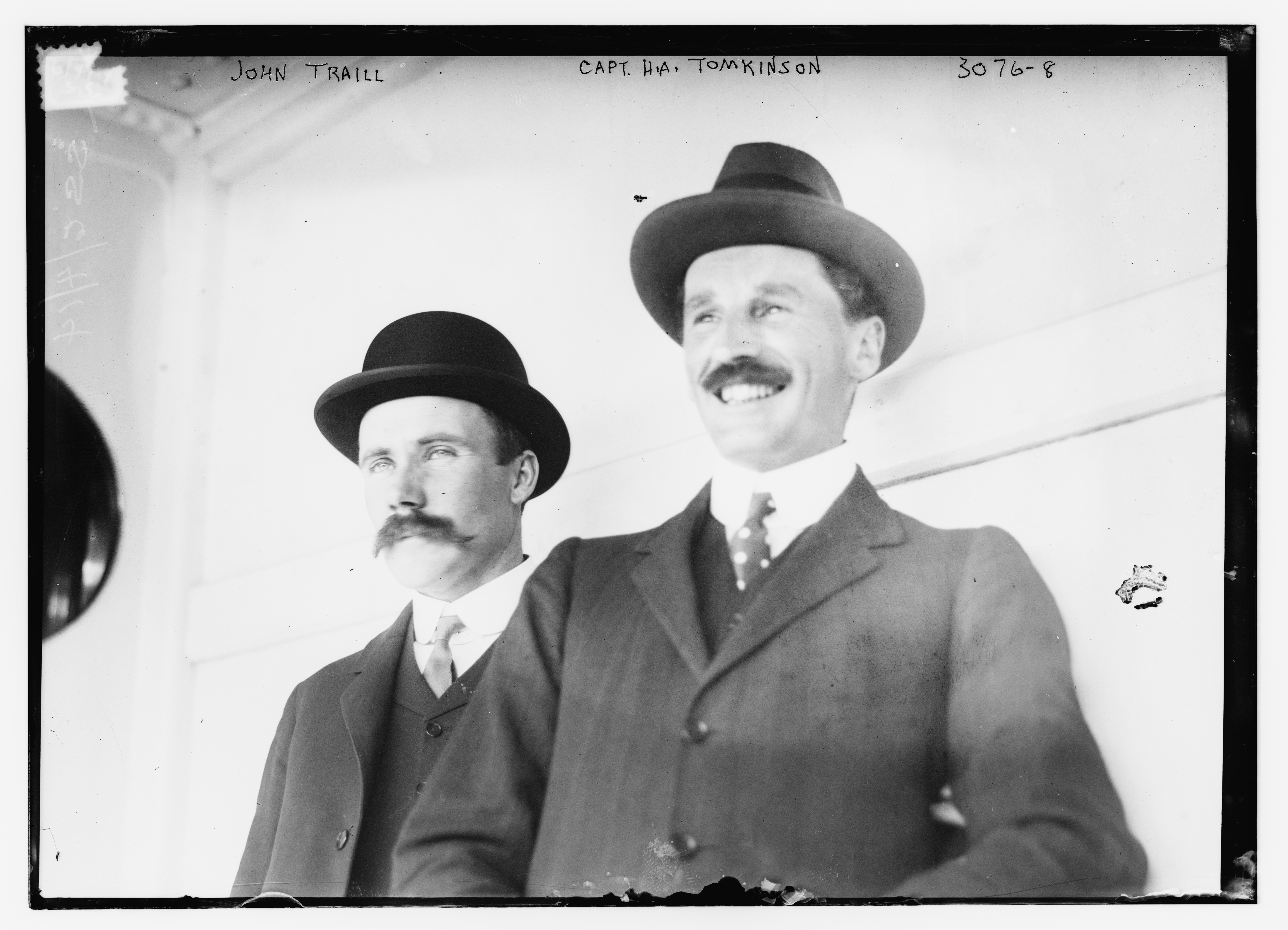 John Traill and Captain Henry Archdale Tomkinson of the British polo team on June 4, 1914 for the International Polo Cup Notes: The image is labelled June 4, 1914. They arrived on June 1, 1914 aboard the RMS Carmania. They may be on a smaller boat going from Manhattan to Mineola. Bain News Service,, publisher. John Traill, Capt. H.A. Tomkinson [between ca. 1910 and ca. 1915] 1 negative : glass ; 5 x 7 in. or smaller. Notes: Title from unverified data provided by the Bain News Service on the negatives or caption cards. Forms part of: George Grantham Bain Collection (Library of Congress). Format: Glass negatives. Repository: Library of Congress, Prints and Photographs Division, Washington, D.C. 20540 USA, General information about the Bain Collection is available at Persistent URL: Call Number: LC-B2- 3076-8